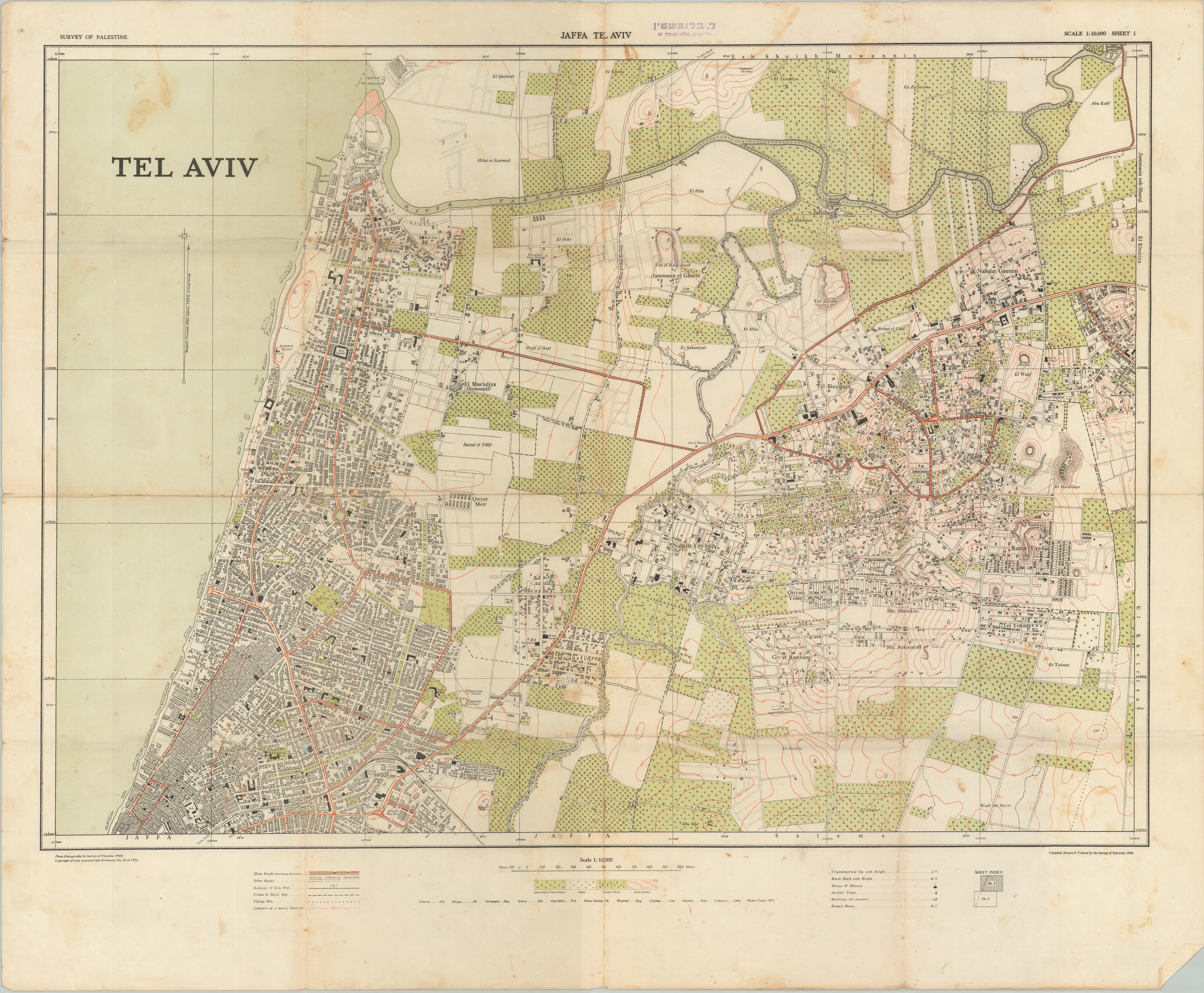 Map of Jaffa - Tel Aviv; Compiled, drawn & printed by the Survey of Palestine 1944